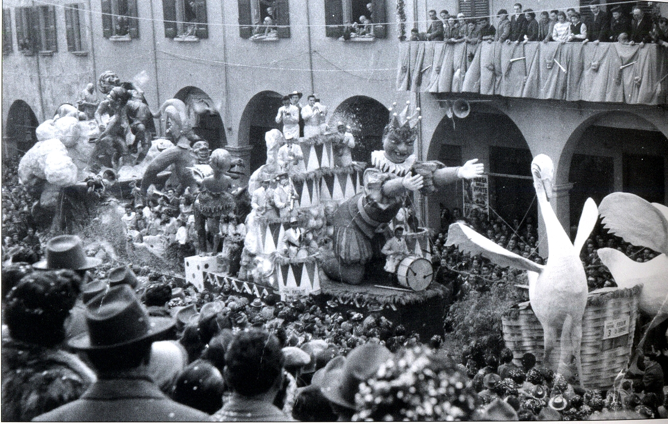 A Toponi's carnival float from 1954 Cento's parade.